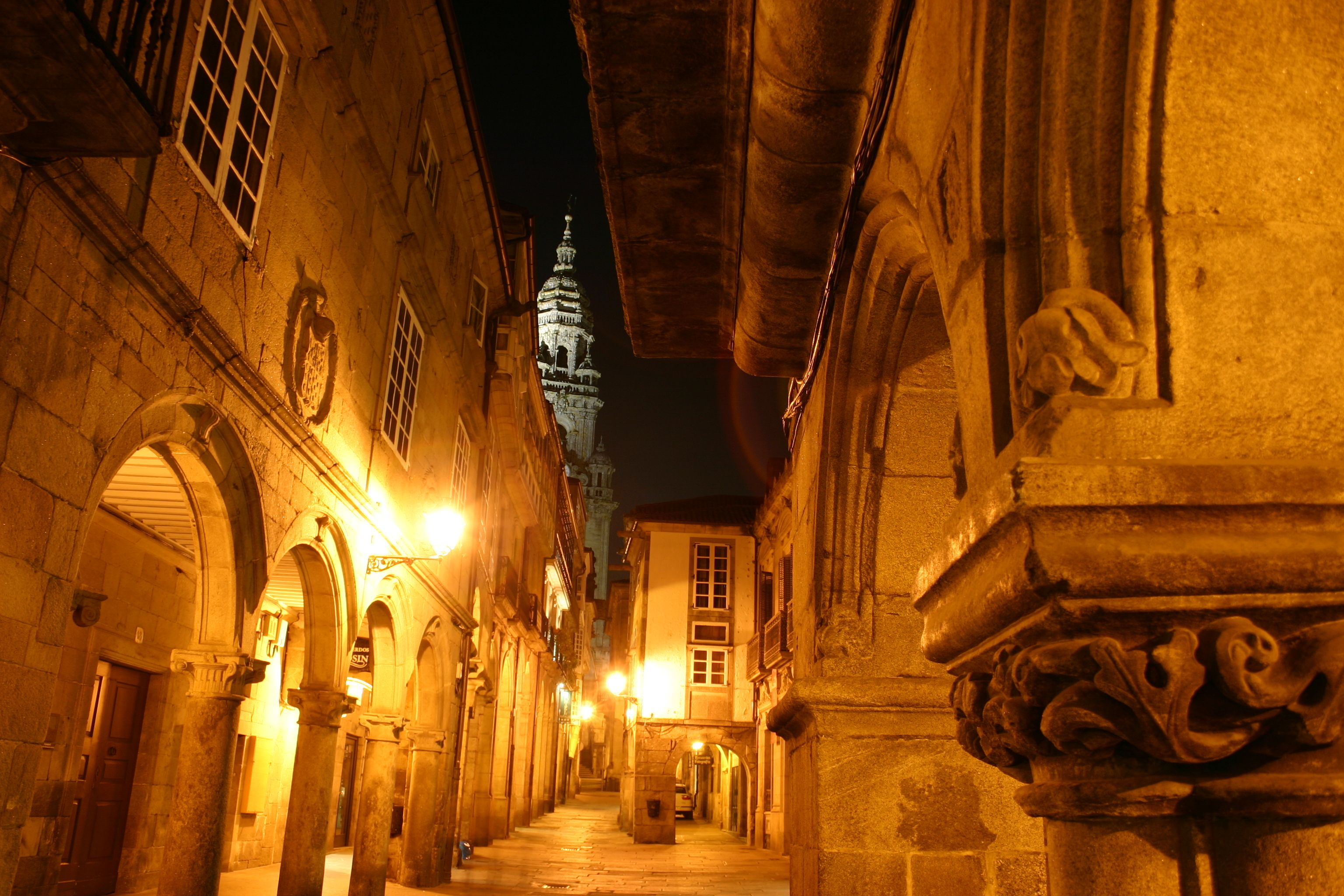 Villar street in Santiago de Compostela, Galicia (Spain). Author: User:Yearofthedragon